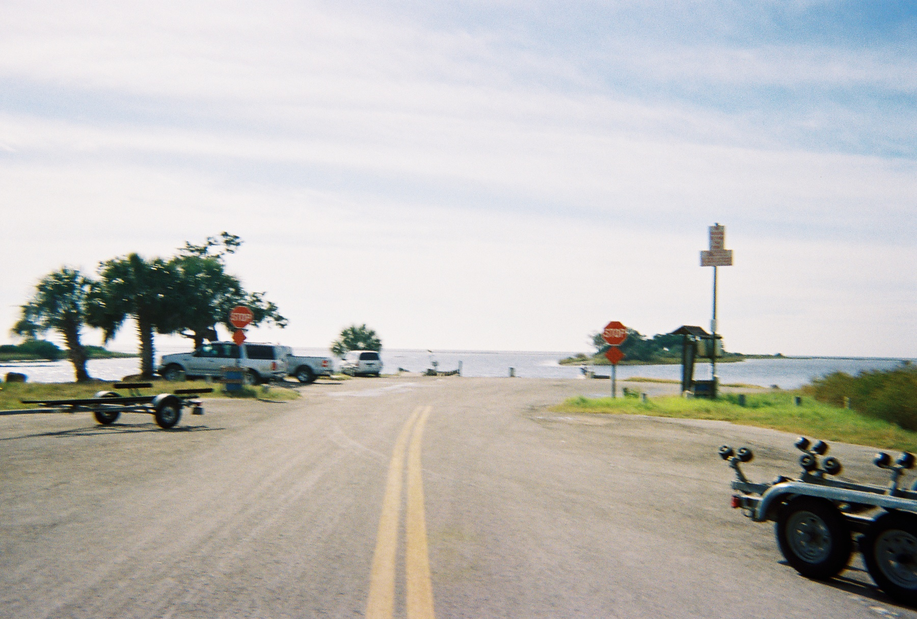 The west end of Levy County Road 40 at a boat ramp off the Gulf of Mexico in Yankeetown, Florida.